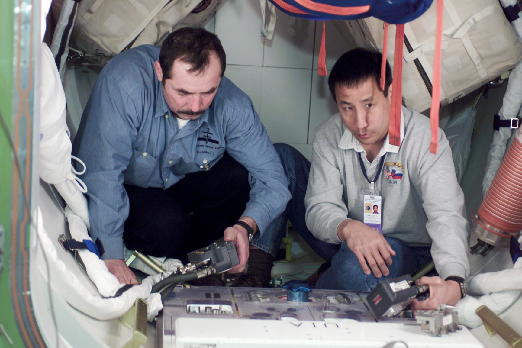 Cosmonaut Sergei I. Moschenko (left) and astronaut Edward T. Lu, both Expedition Seven flight engineers, participate in mission training in the Space Station Mockup and Training Facility at the Johnson Space Center (JSC). Moschenko represents Rosaviakosmos.